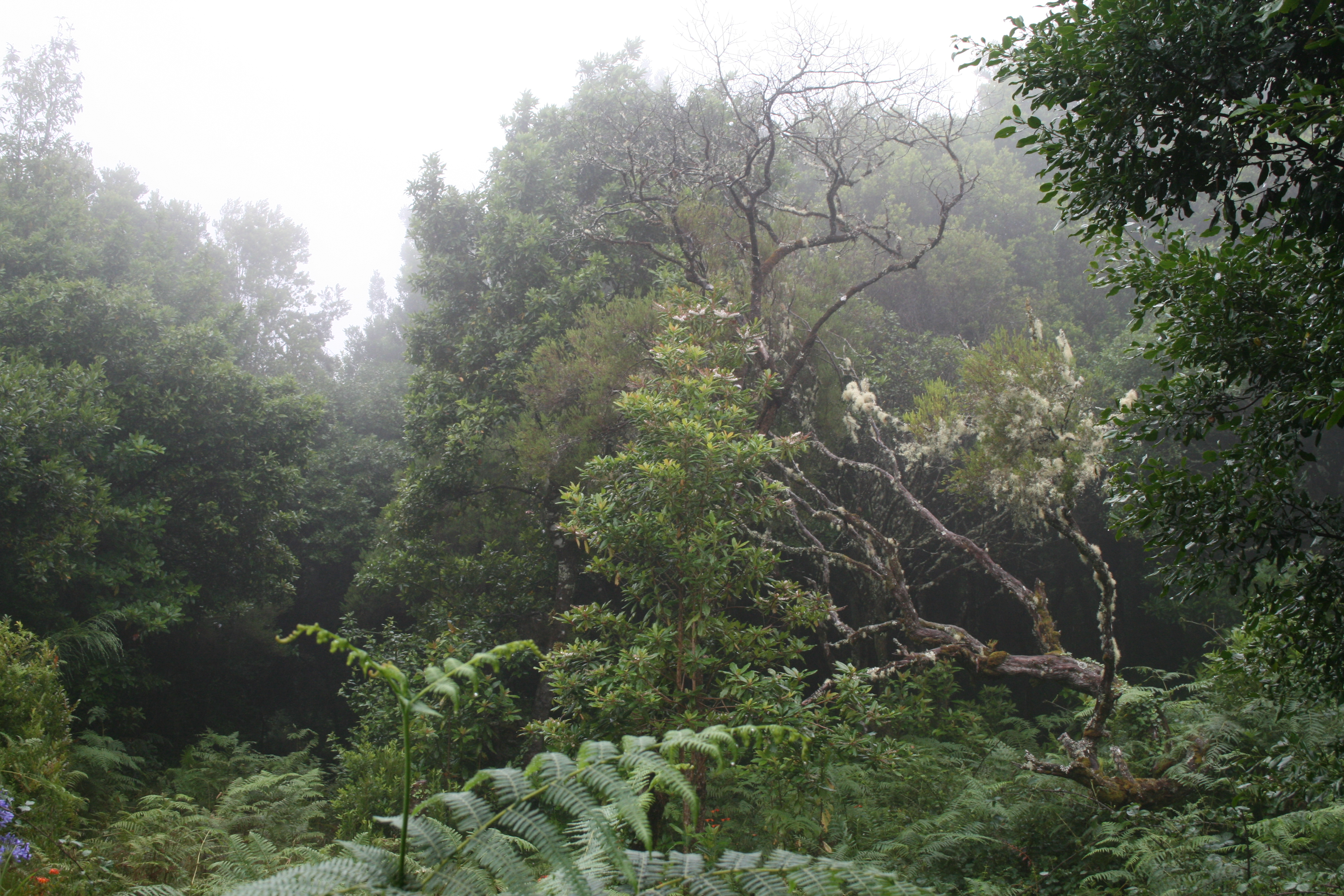 Laurisilva in Madeira